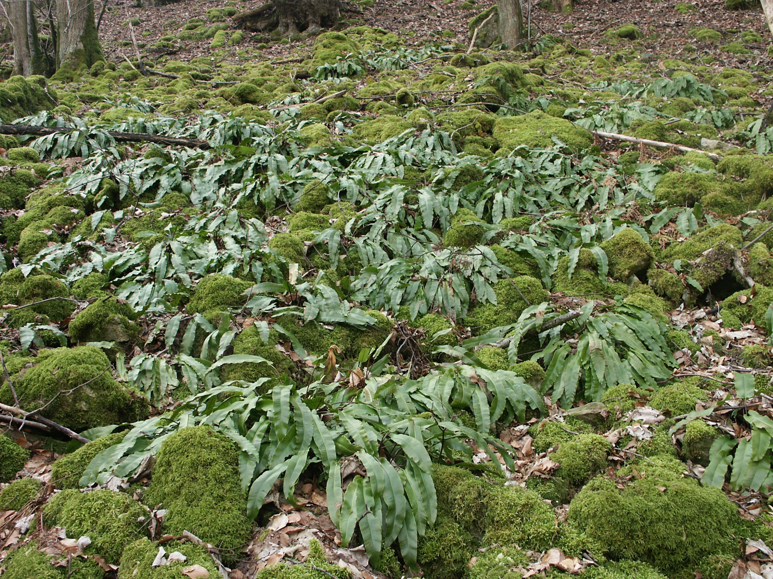 Asplenium scolopendrium syn. Phyllitis scolopendrium, Hohenlohe, Germany